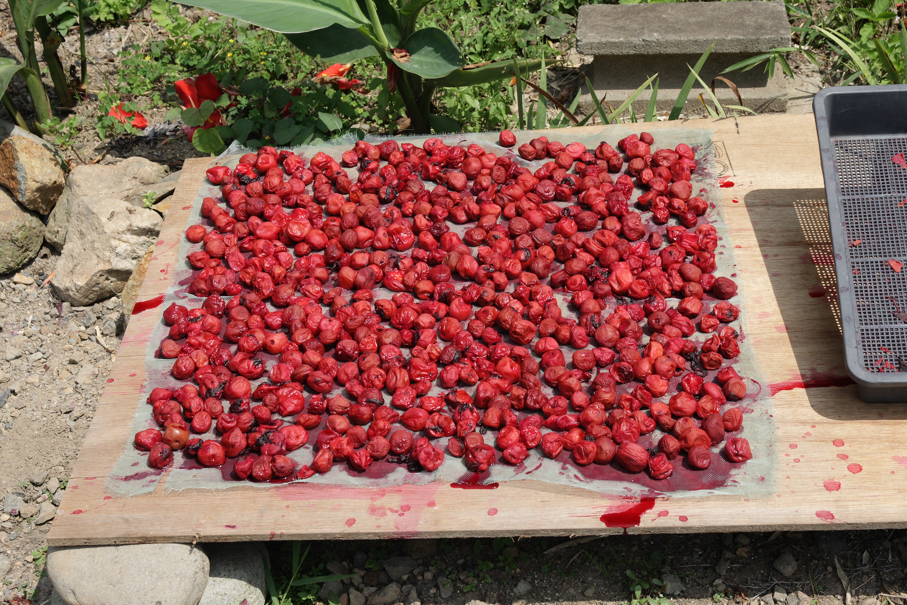 Umeboshi